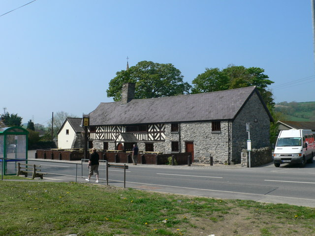 Ty Mawr, Gwyddelwern